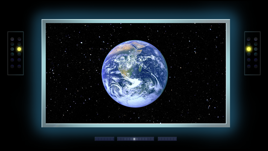 Star Fleet-style monitor showing The Blue Marble against a "static" starfield. Viewscreen dimensions roughly proportional to the monitors shown in Star Trek TOS. Original photos by NASA and Björn S. File:The Earth seen from Apollo 17.jpg File:Night sky in the Alps - panoramio (1).jpg